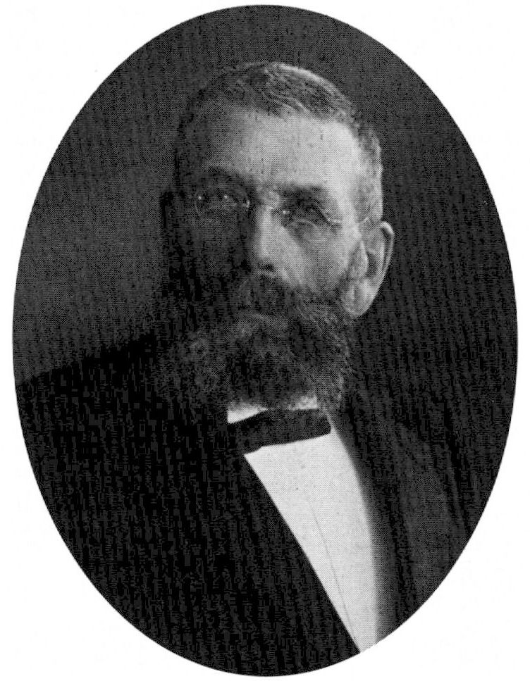 Swedish shipbuilder August Plym (1856-1924)